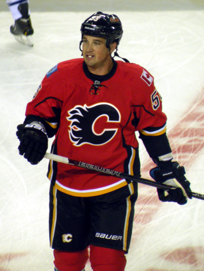 Calgary Flames defenceman Shane O'Brien prior to a pre-season game against the Edmonton Oilers.